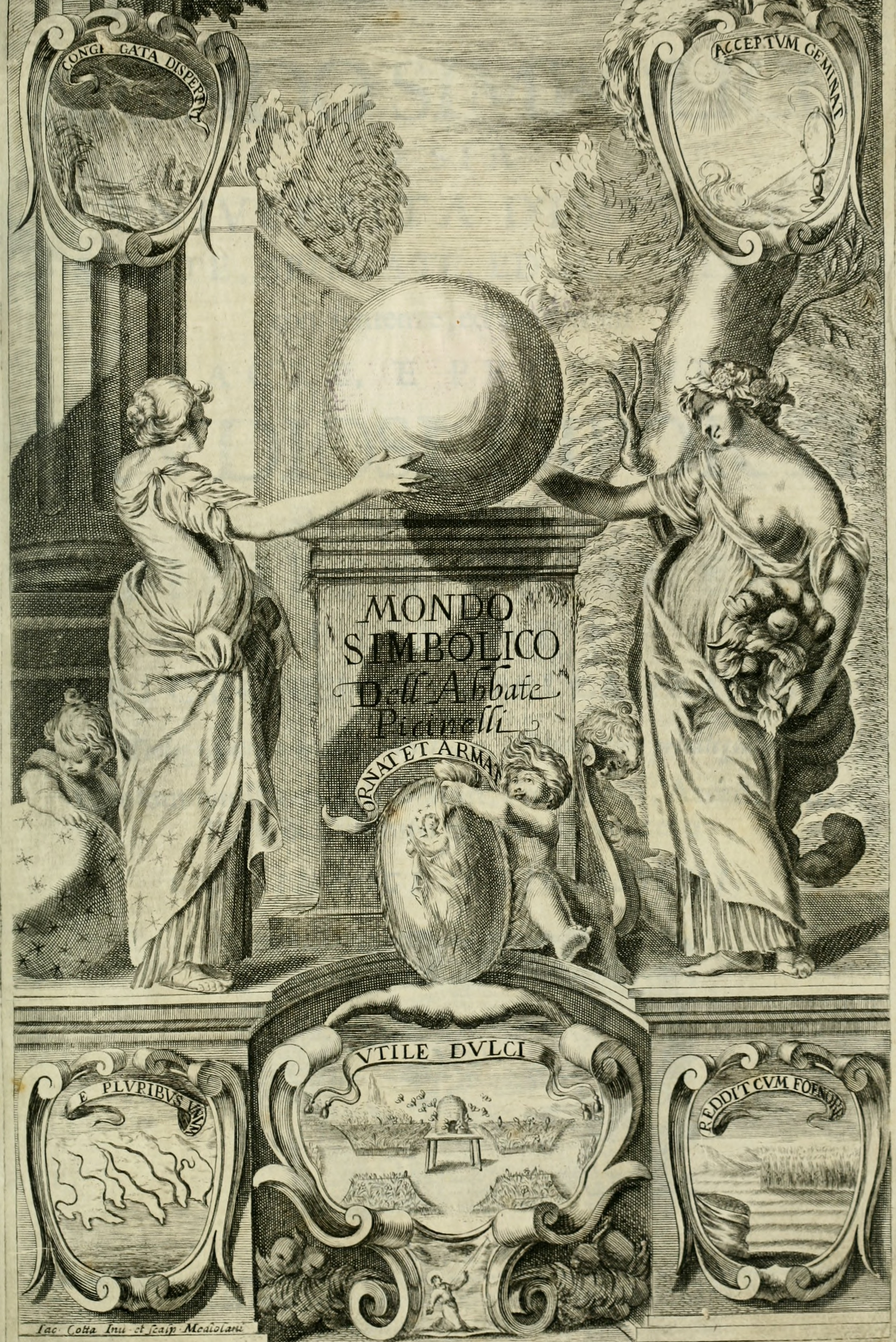 Title: Mondo simbolico : o sia vniversita d'imprese scelte, spiegate, ed' illvstrate con sentenze, ed eruditioni sacre, e profane Year: 1653 (1650s) Authors: Picinelli, Filippo, 1604-ca. 1667 Subjects: Emblems Symbolism Natural history Industrial arts Publisher: In Milano : Per lo Stampatore Archiepiscopale, ad instanza di Francesco Mognagha Text Appearing Before Image: -a * Text Appearing After Image: Jn Muam per Fraiicrfic \M.\;n*ì«~ Wi Pni., / Digitized by the Internet Archive in 2010 with funding from University of Illinois Urbana-Champaign MONDO SIMBOLICO OSIA V NIVERS IT AD IMPRESE SCELTE, SPIEGATE, ED ILLVSTRATE con fentenze.ed eruditioni SACRE, E PROFANE. STVDIOSI DIPORTI DEL V ABBATE D FILIPPO PICINELLI MILANESENE I CANONICI REGOLARI LATERANENSI Teologo,Lettore di Sacra, Scrittura, e Predicatore primieriato. Che fomminiftrano à gli Oratori, Predicatori, Accademici,Poeti òca infinito numero di concetti CON INDICI COPIOSISSIMI.mondosimbolicoos00pic